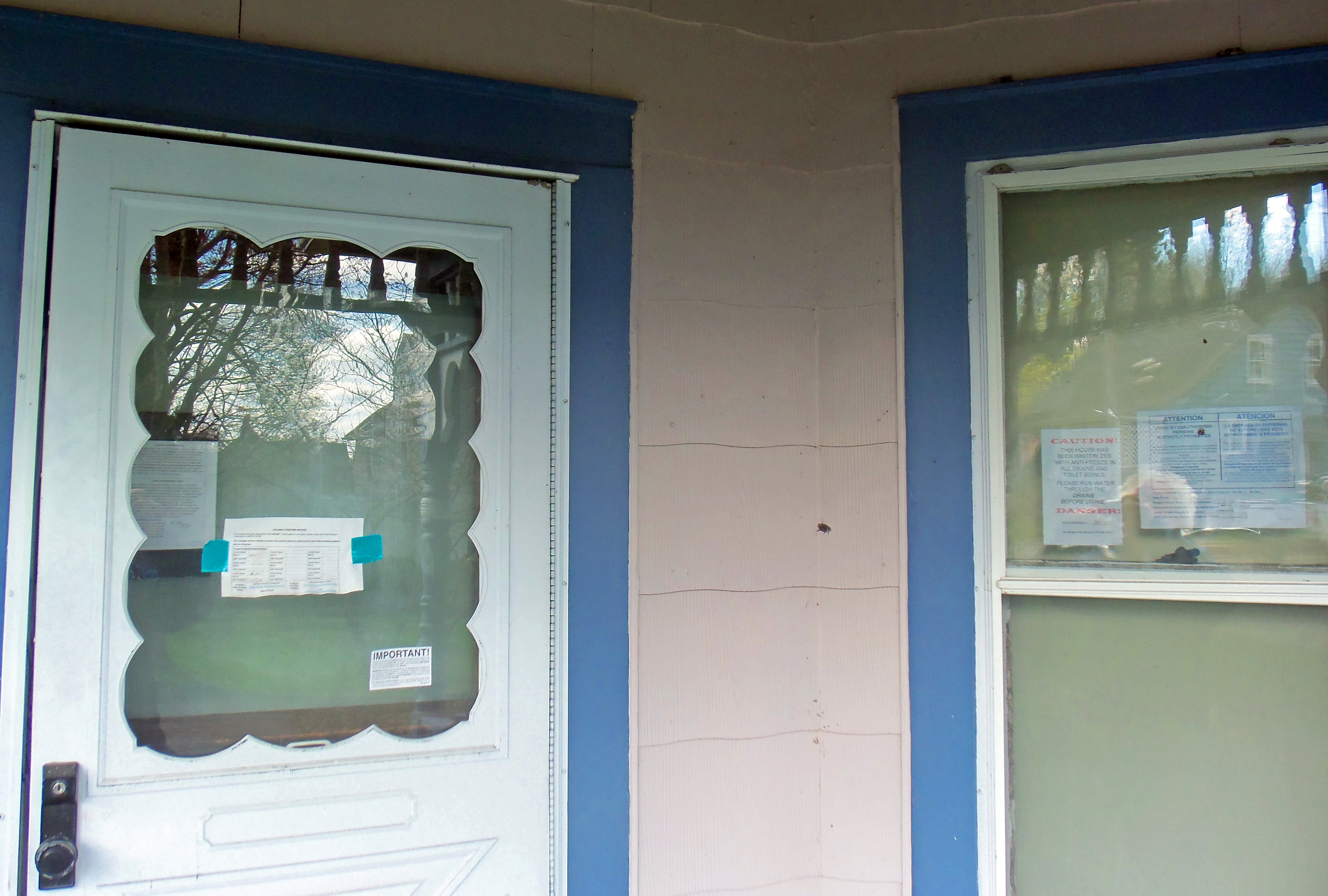 Notices on door of unoccupied Walden, NY house in foreclosure logging dates on which the mortgage holder inspected and stating that it has been winterized.